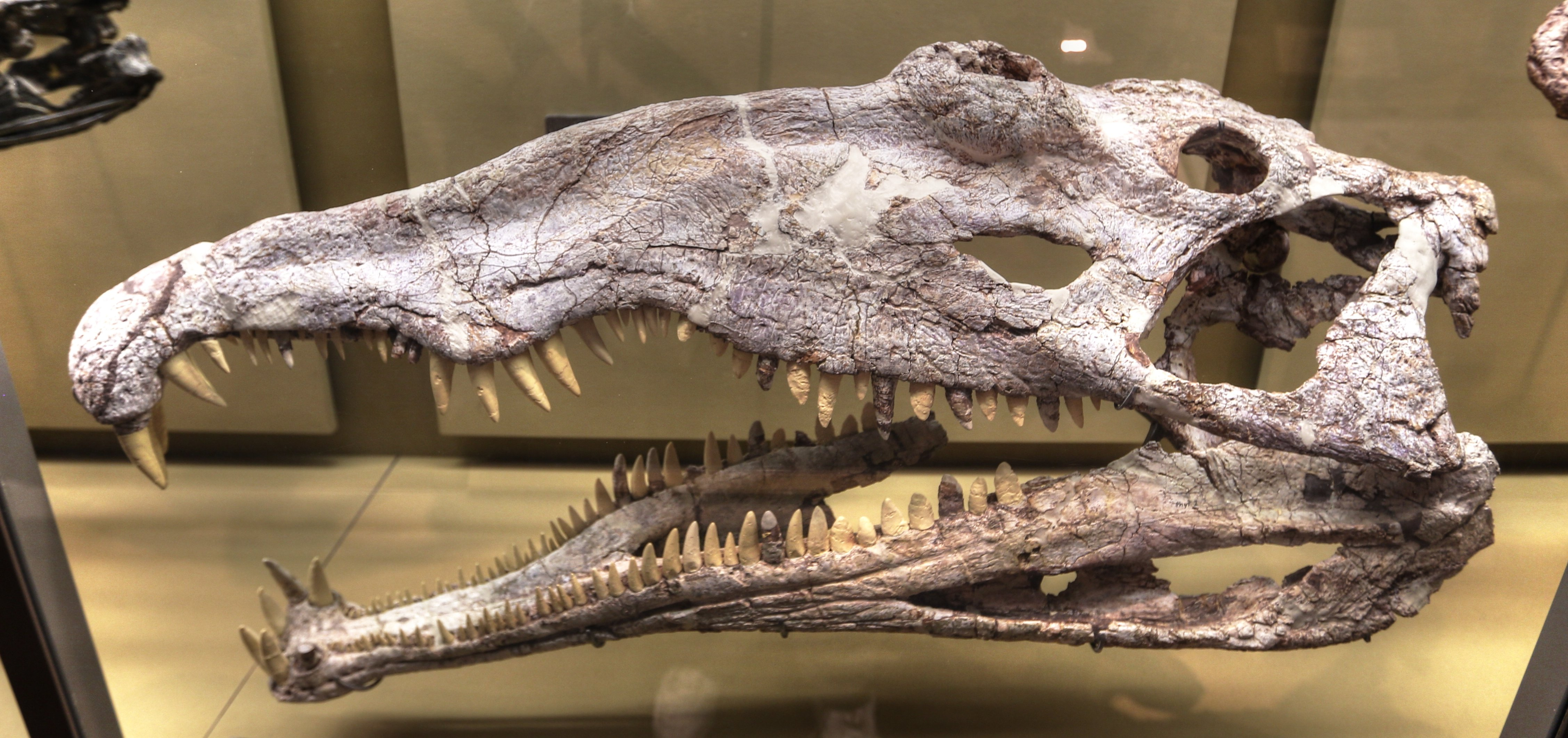 Crop of file in filename